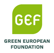 Logo of the Green European Foundation